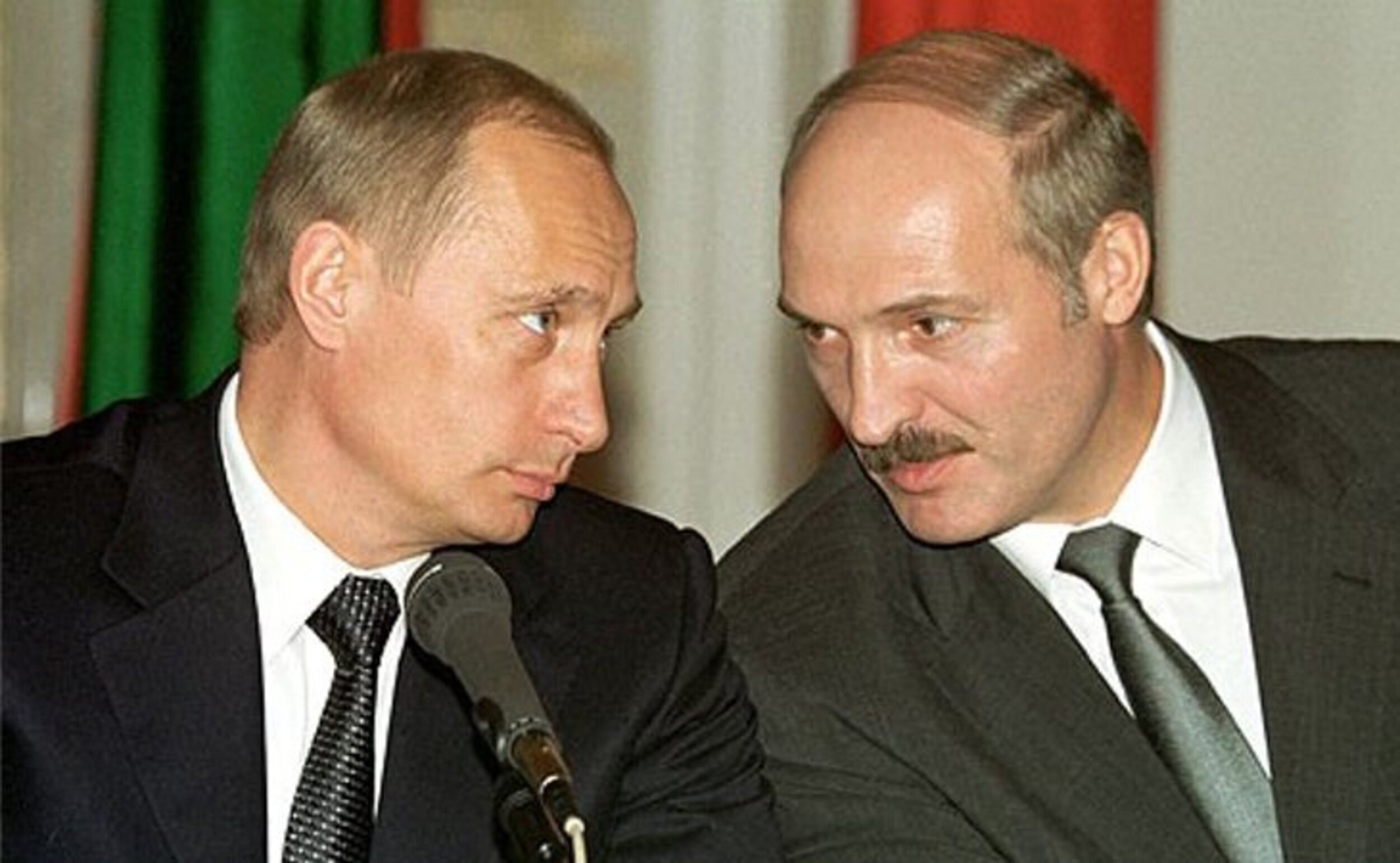 THE KREMLIN, MOSCOW. With President Aleksandr Lukashenko of Belarus at a news conference.